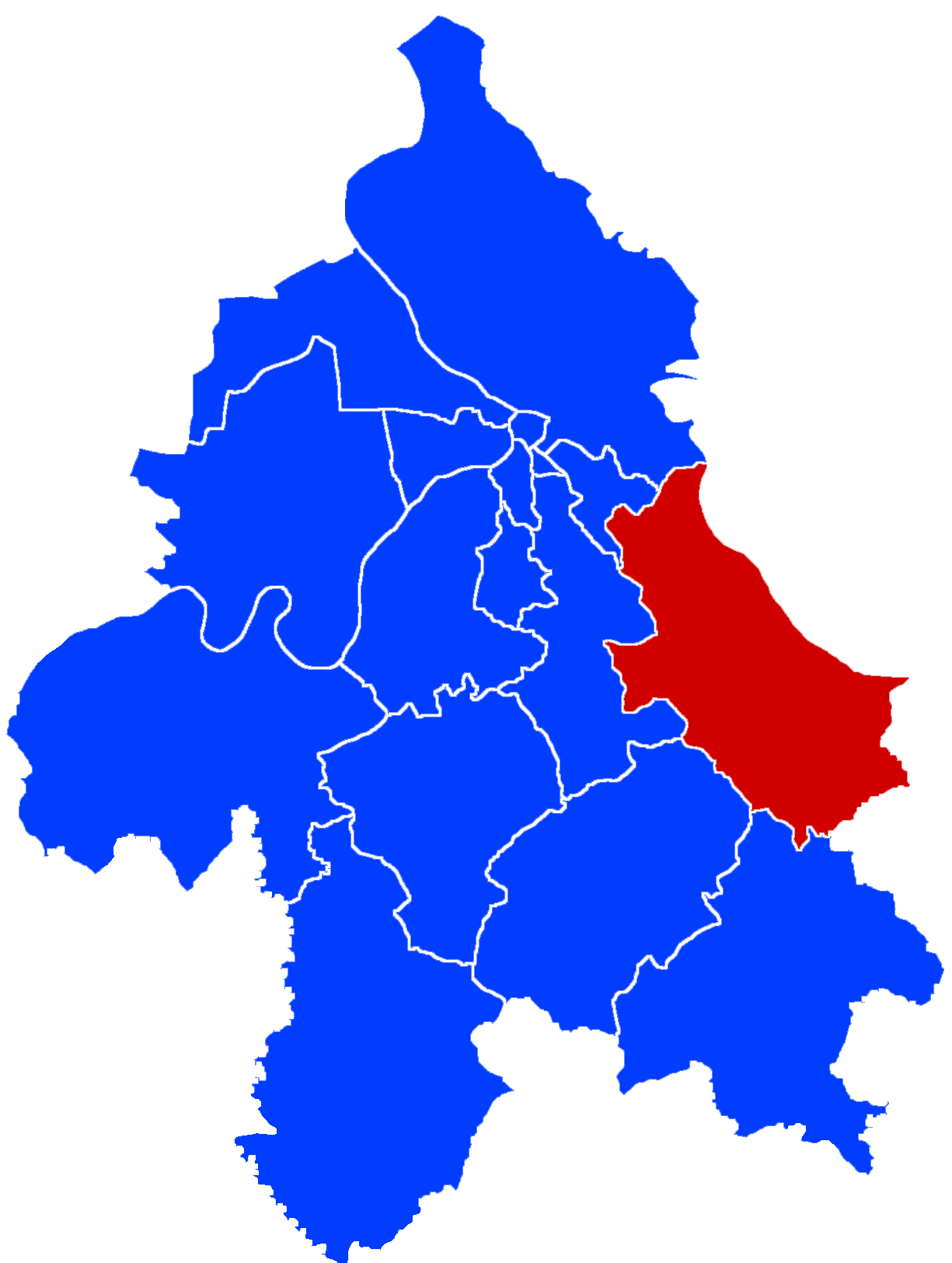 The graphical representation of the municipality of Grocka within the city of Belgrade